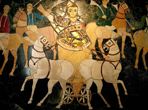 Opus sectile panel. Roman artwork, first half of the 4th century. From the basilica of Junius Bassus on the Esquiline Hill.